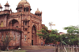 Government Museum, Chennai, Tamil Nadu, India, established 1857. Provided by Utilisateur:Nataraja on May 1st, 2003 under GNU FDL.